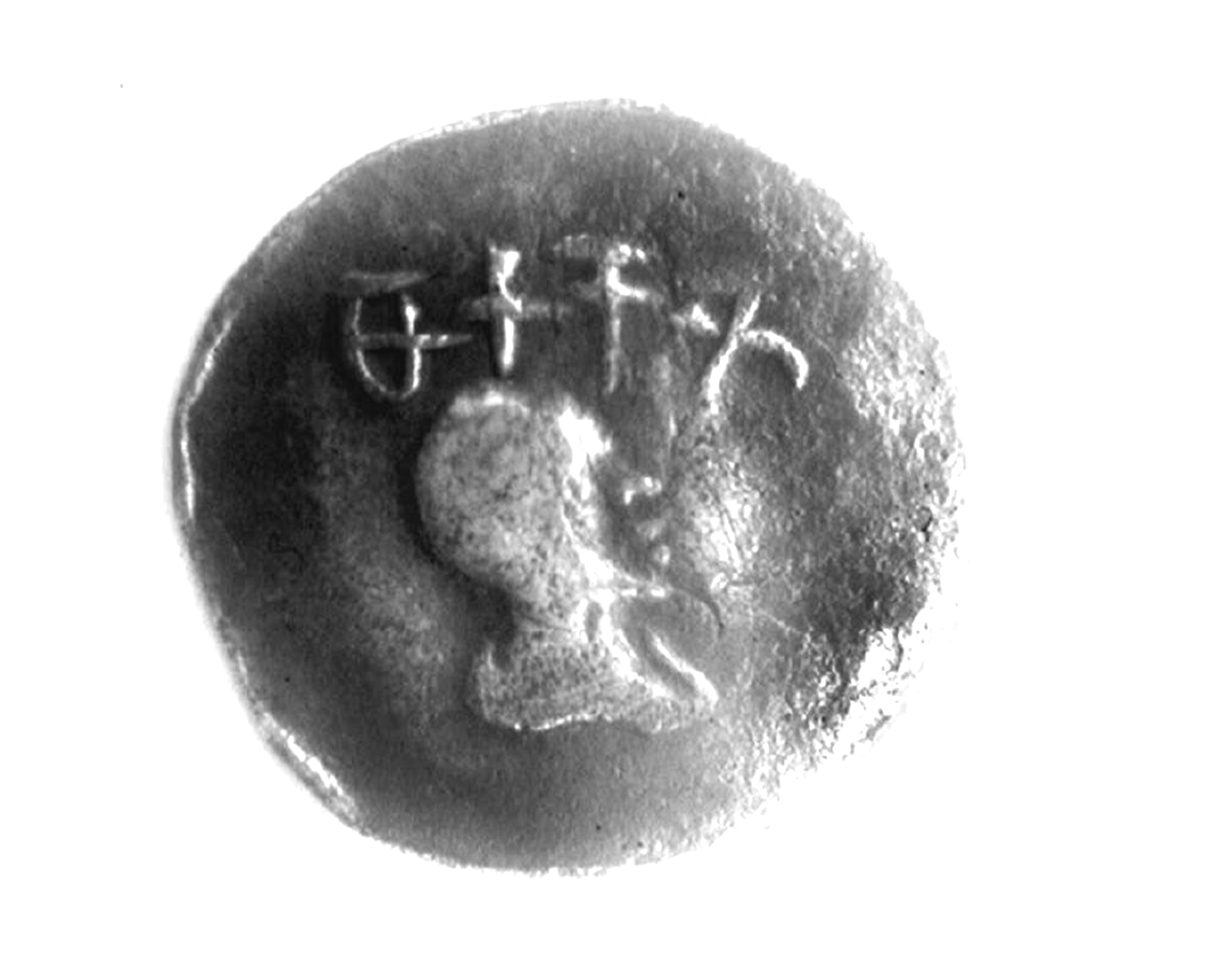 Chera coin (ancient south India) with Brahmi legend "Makkotai".